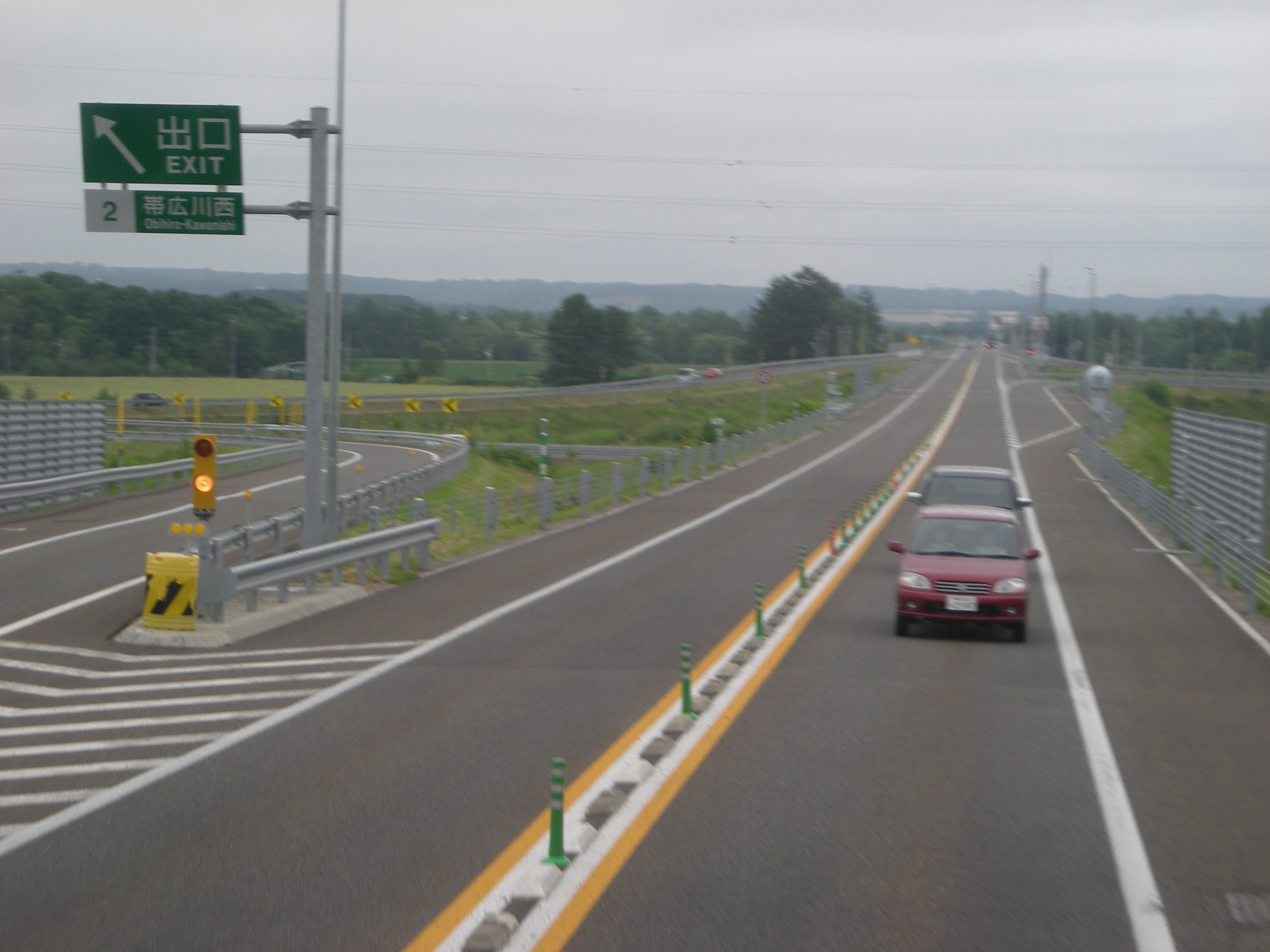 Obihiro-Kawanishi_IC,Hokkaido,Japan